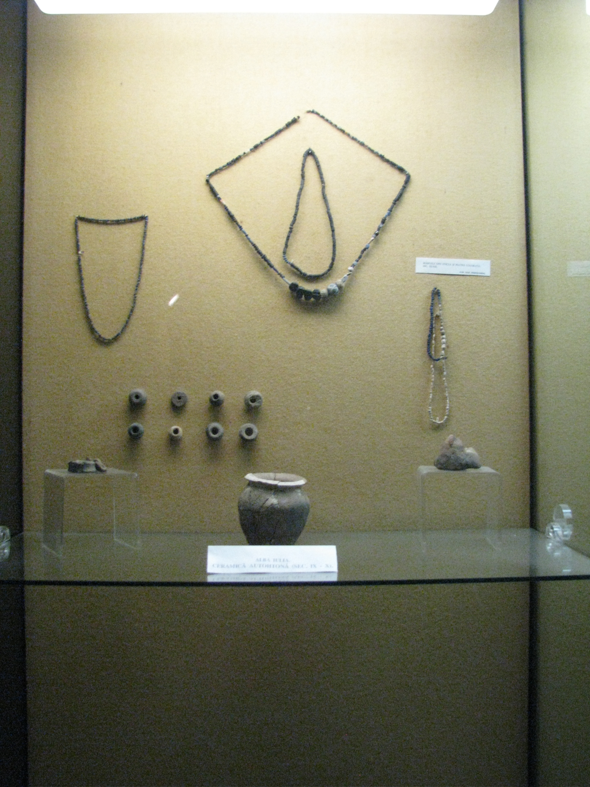 Alba Iulia National Museum of the Union 2011